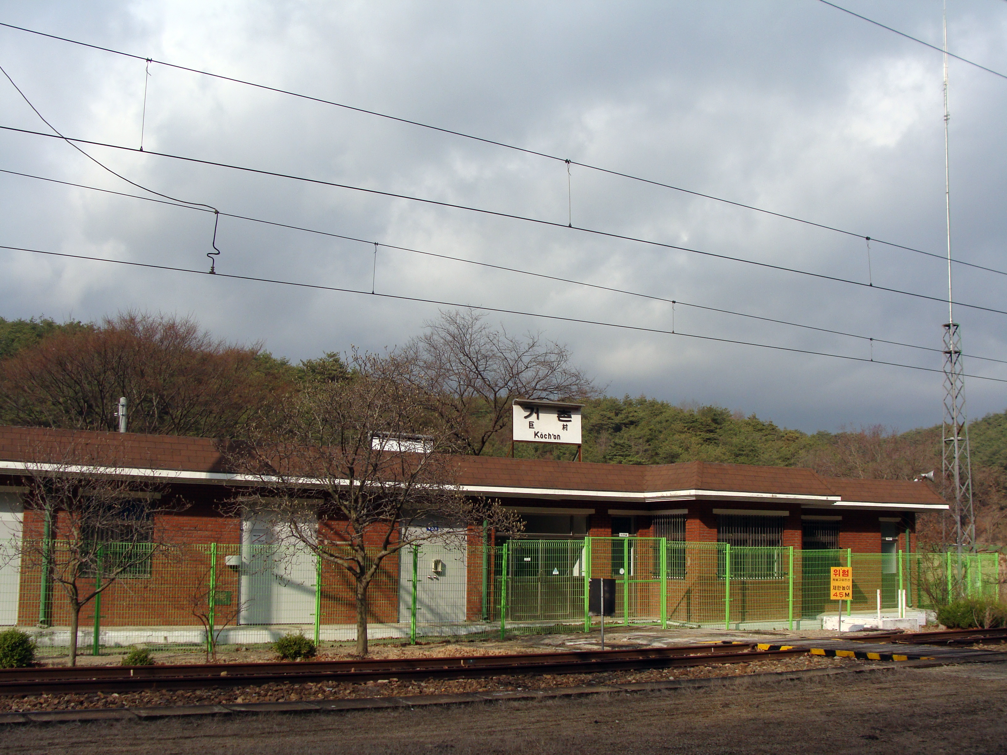 Geochon Station of Yeongdong Railway Line, South Korea